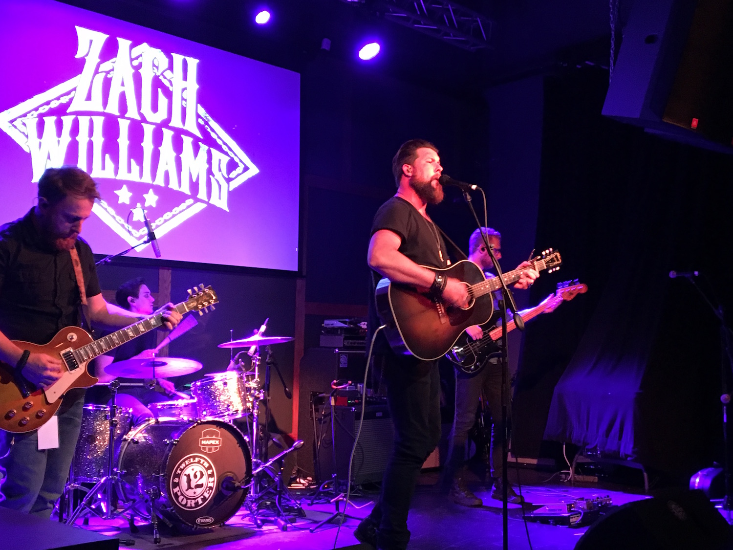 Zach Williams at 12th & Porter in Nashville, TN on September 29, 2016